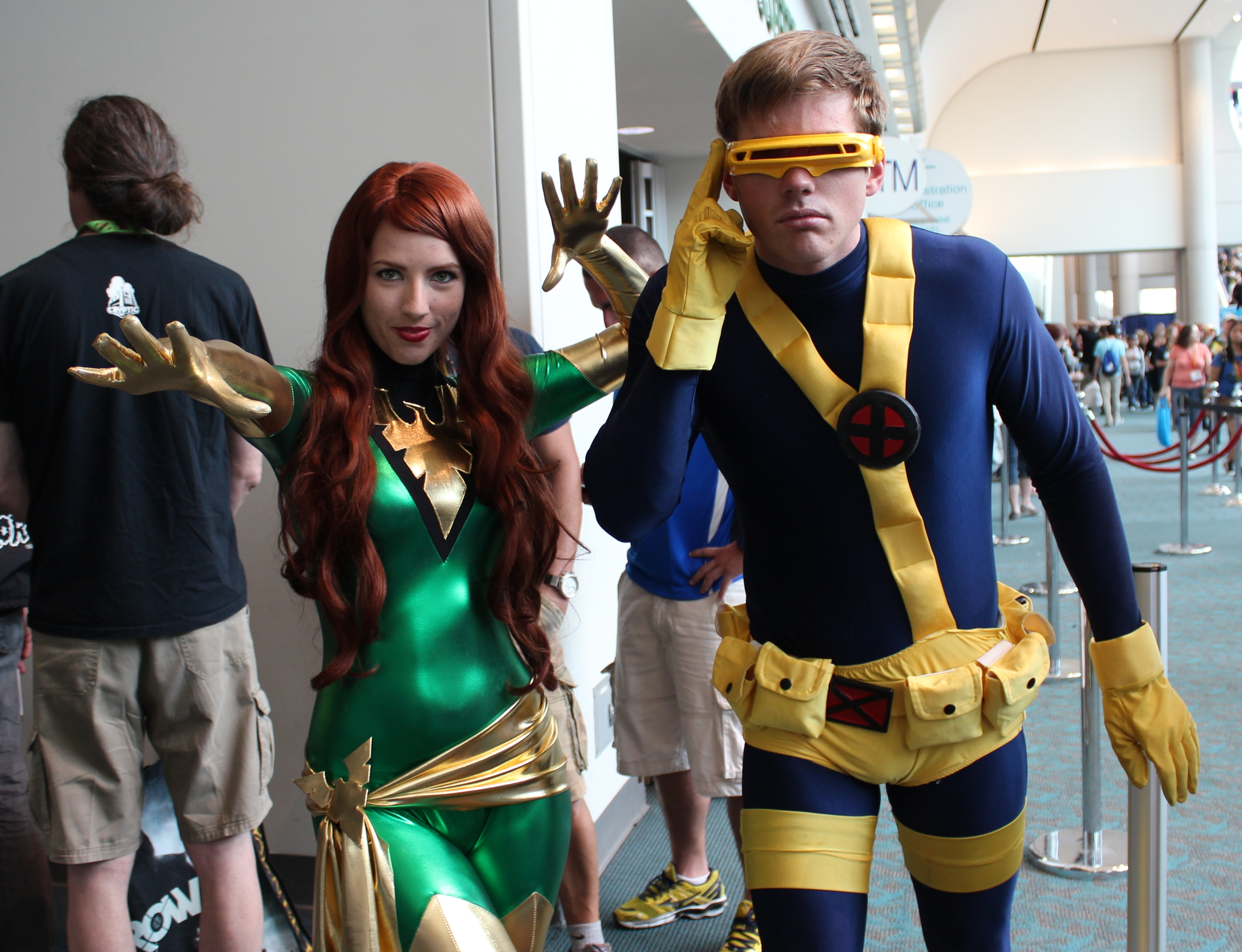 Phoenix and Cyclops Cosplay at San Diego Comic-Con (SDCC 2012).